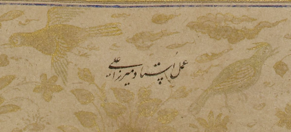 Shapur shows to Shirin portrait of Khosrow MirzaAli signature detail